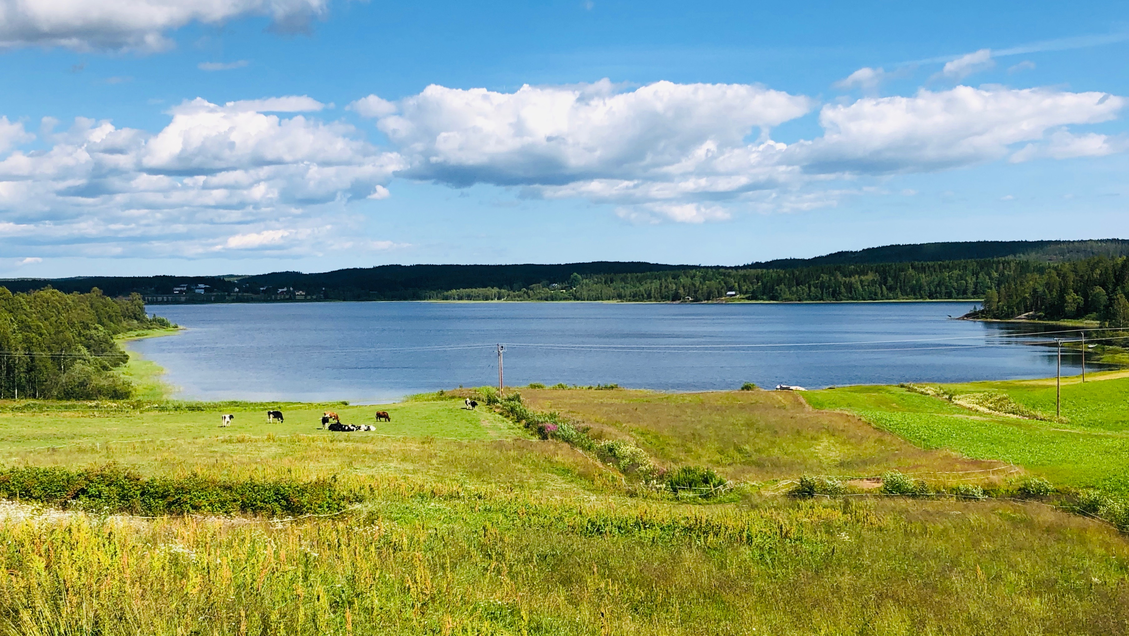 Sunnansjö, Nordmaling, Västerbotten County, Sweden